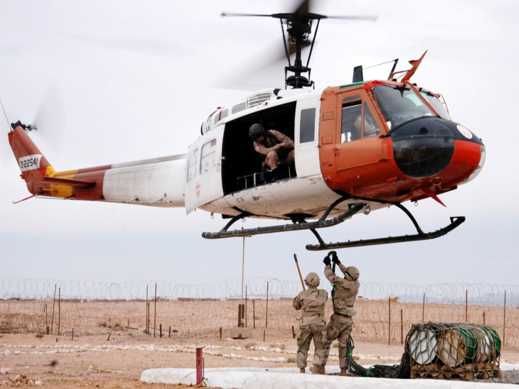 Soldiers sling supplies to a UH-1H 'Huey' helicopter so they can be delivered to a remote site on Tiran Island on the Red Sea. The Soldiers are assigned to the 1st Battalion, 125th Infantry Regiment, serving with the Multinational Force and Observers (MFO) in the Sinai Desert, Egypt.